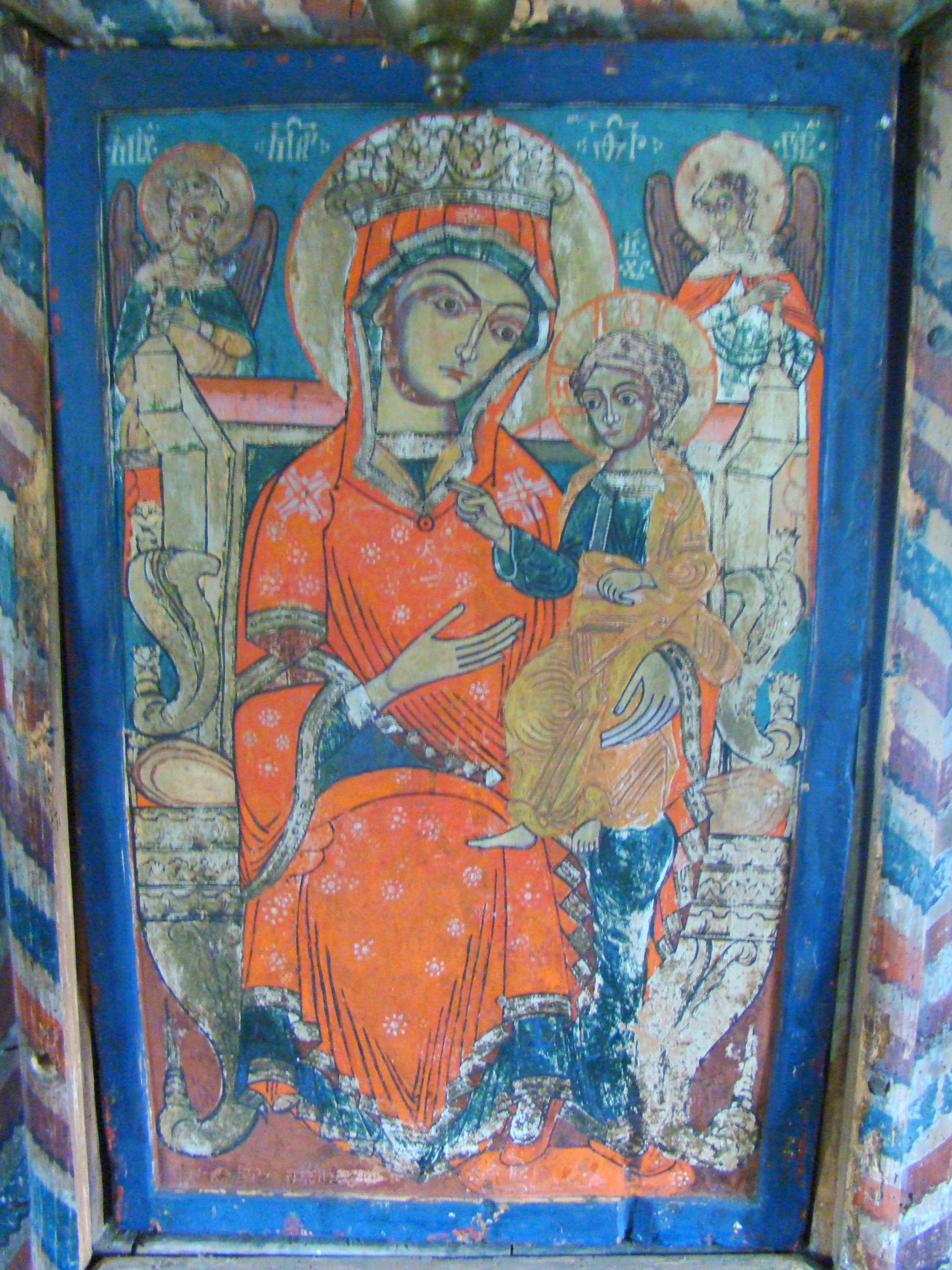 Wooden church of the Holy Angels in Novaci-Români, Gorj county, Romania